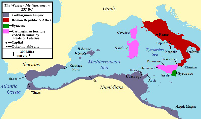 Map of the western Mediterranean Sea in 237 BC, focusing on the states involved in the First Punic War.